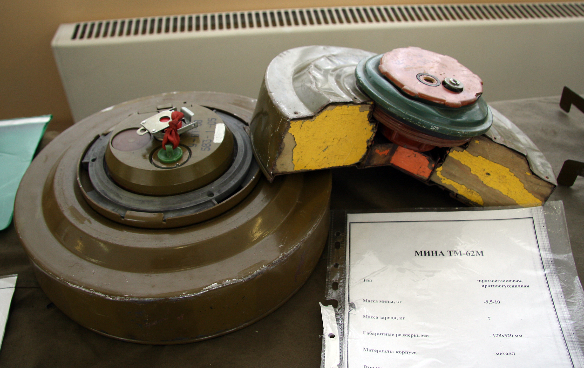 TM-62M